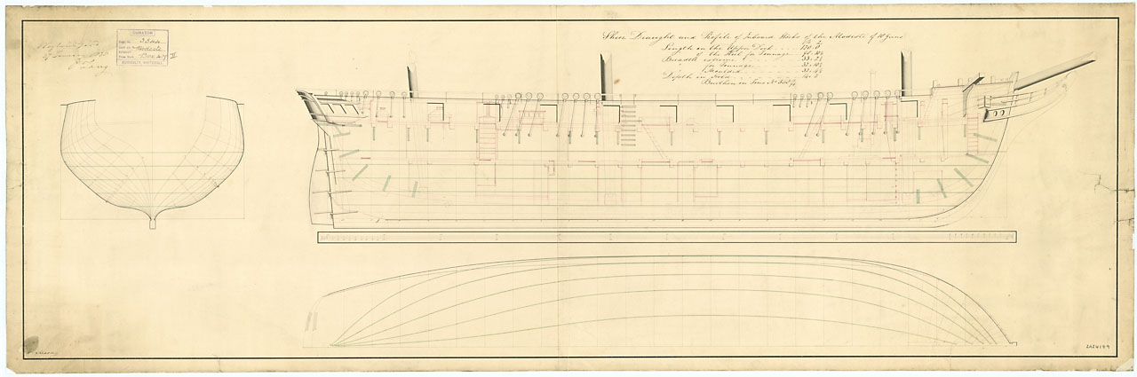 MODESTE 1837 lines & profile